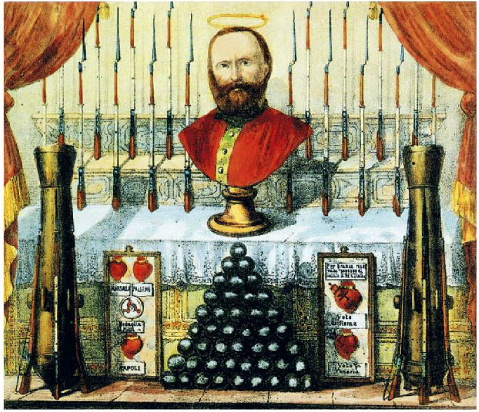 Garibaldi in popular print